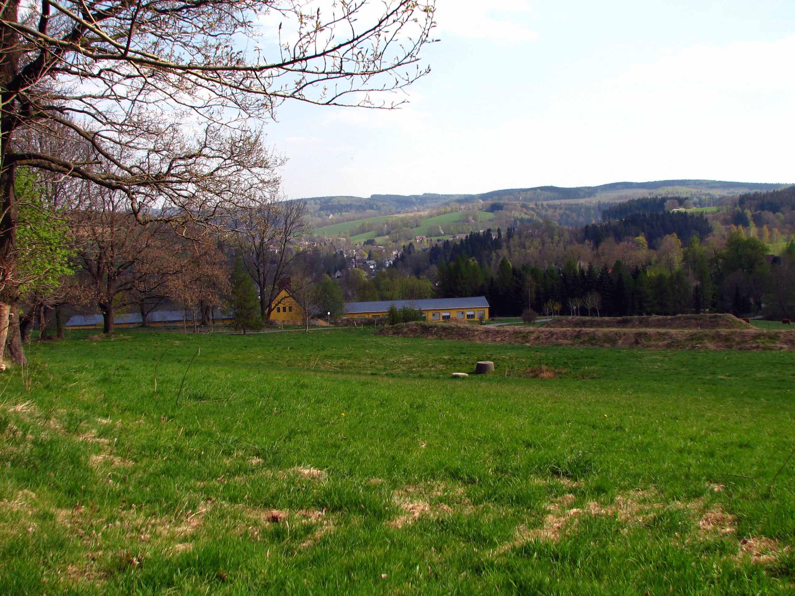 Landscape near Randeck